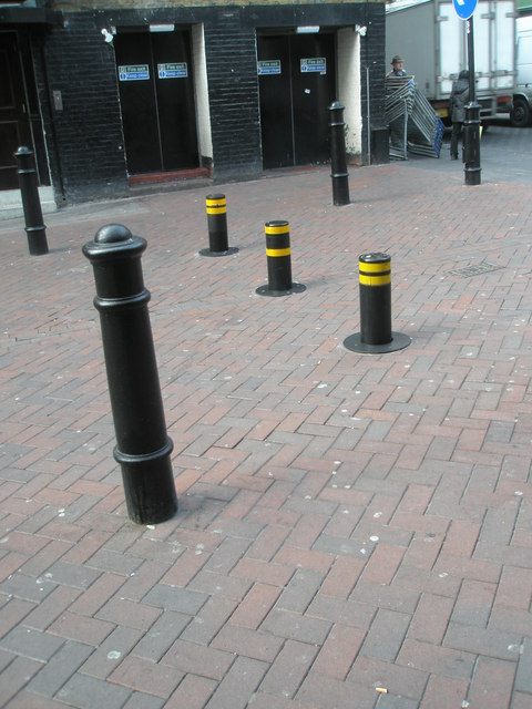 Retractable bollards in Leicester Square Like the "Grand Old Duke of York", I managed to capture them neither up nor down.